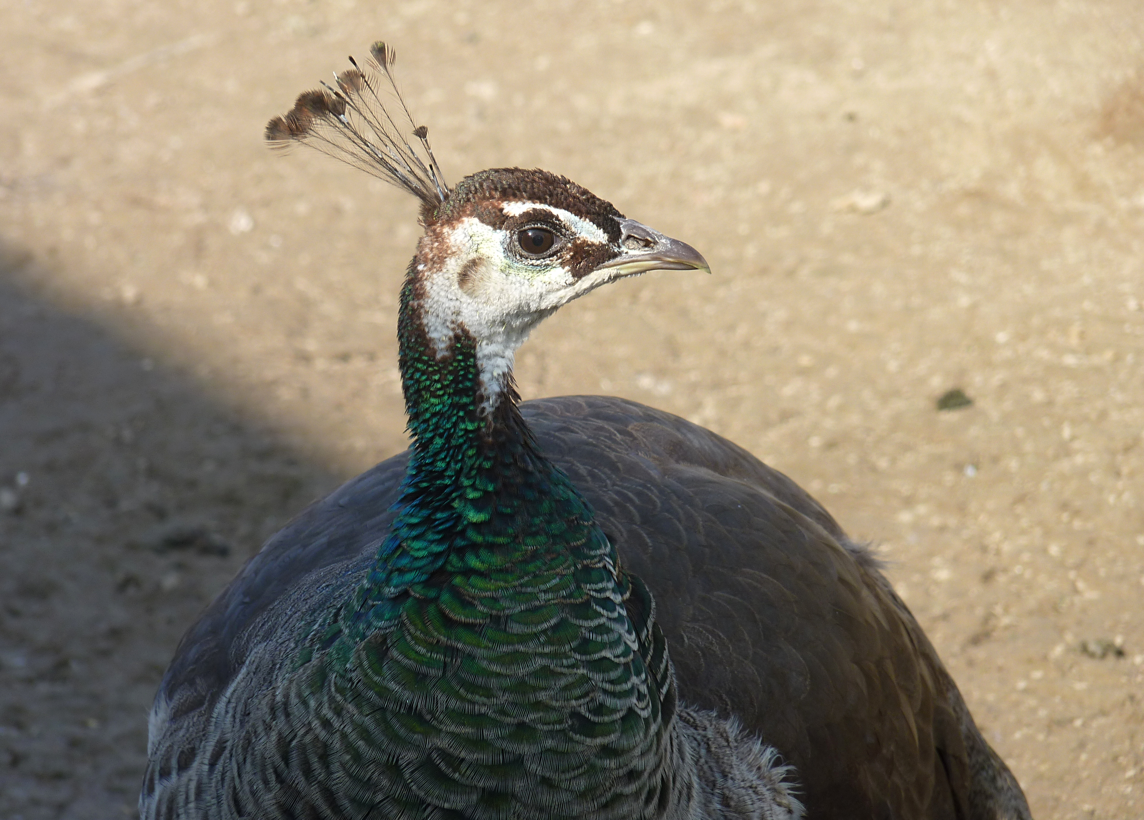 Peahen, picture taken in Belgium.